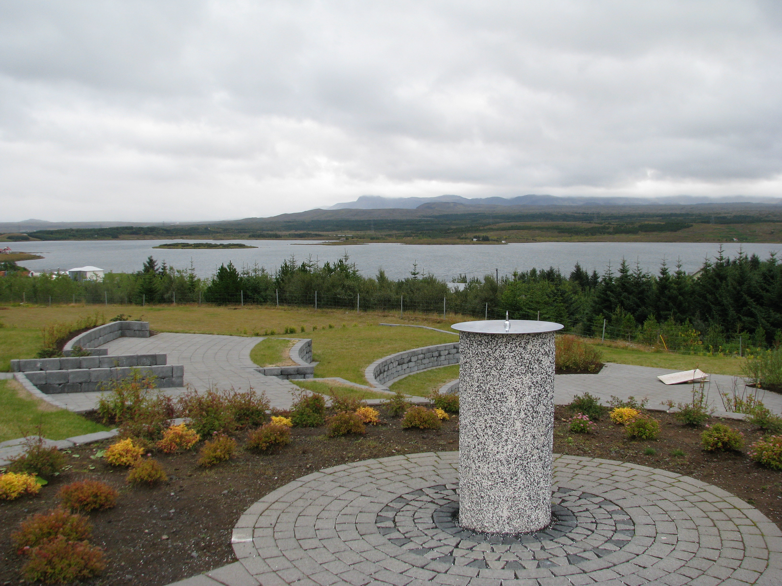 Ellidavatn, a lake in Iceland near Reykjavik.